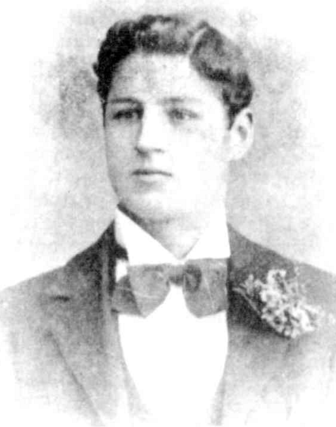 Portrait of Howard Smith published in Melbourne Punch with portraits of several dozen other Victorian Football League players.